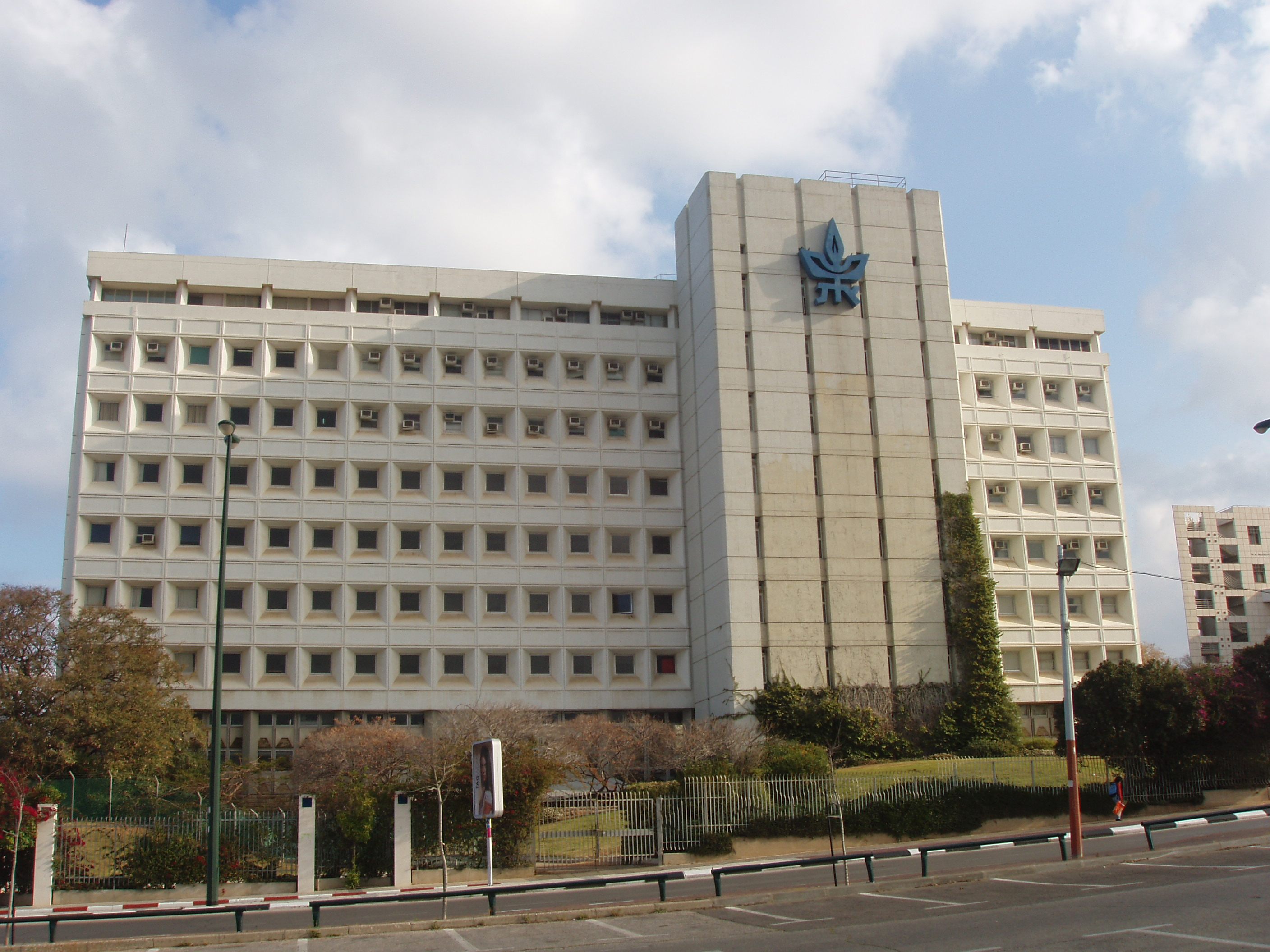 Naftali Building, Tel Aviv University, Israel